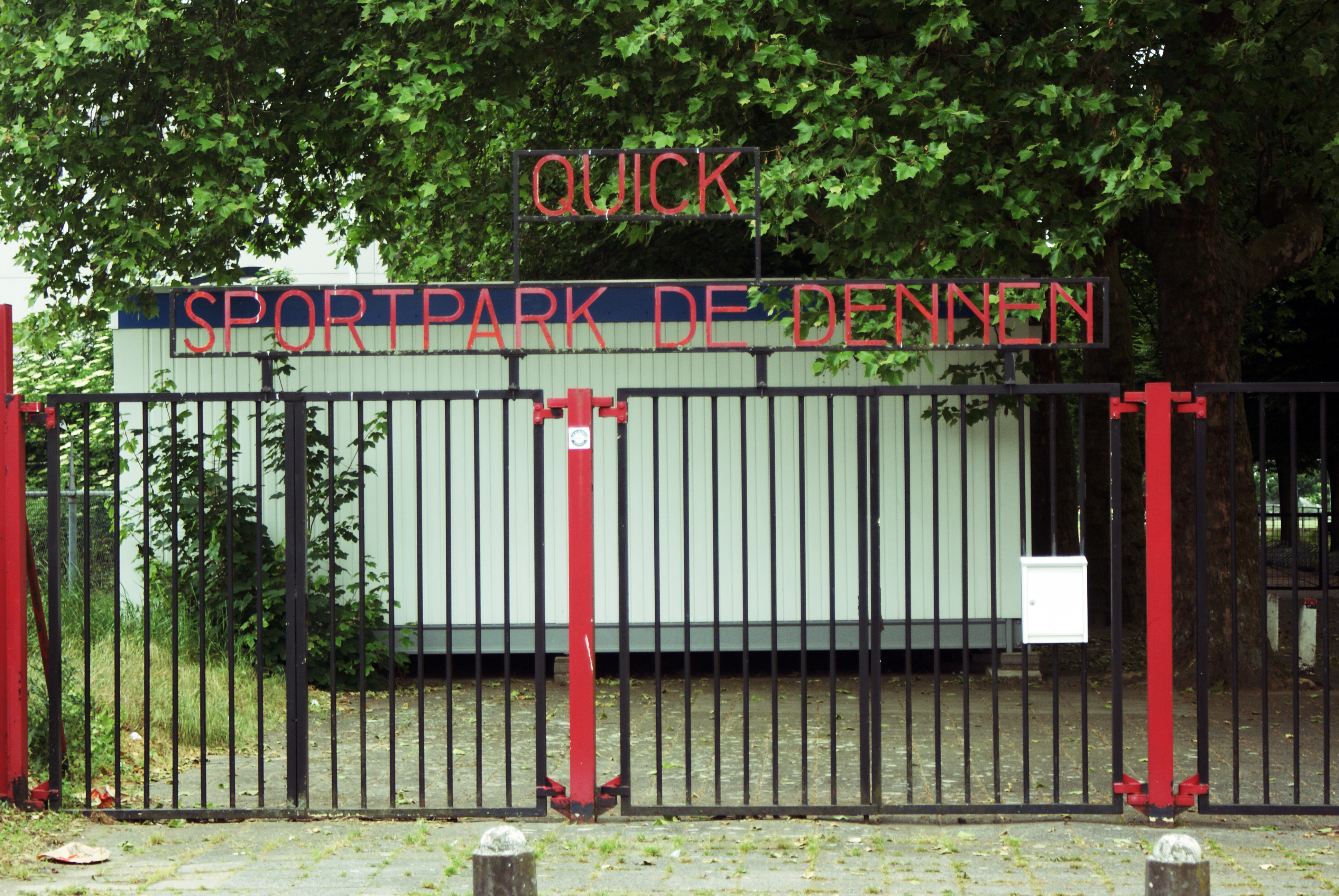 Quick 1888 Hoofdingang